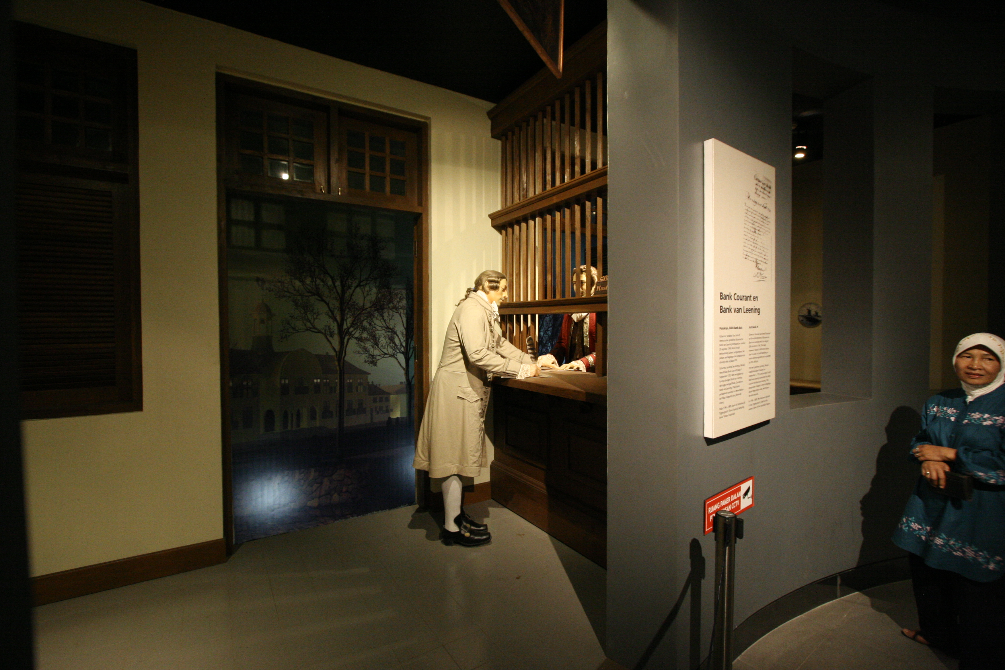 A mock-up of a typical bank in Dutch East Indies